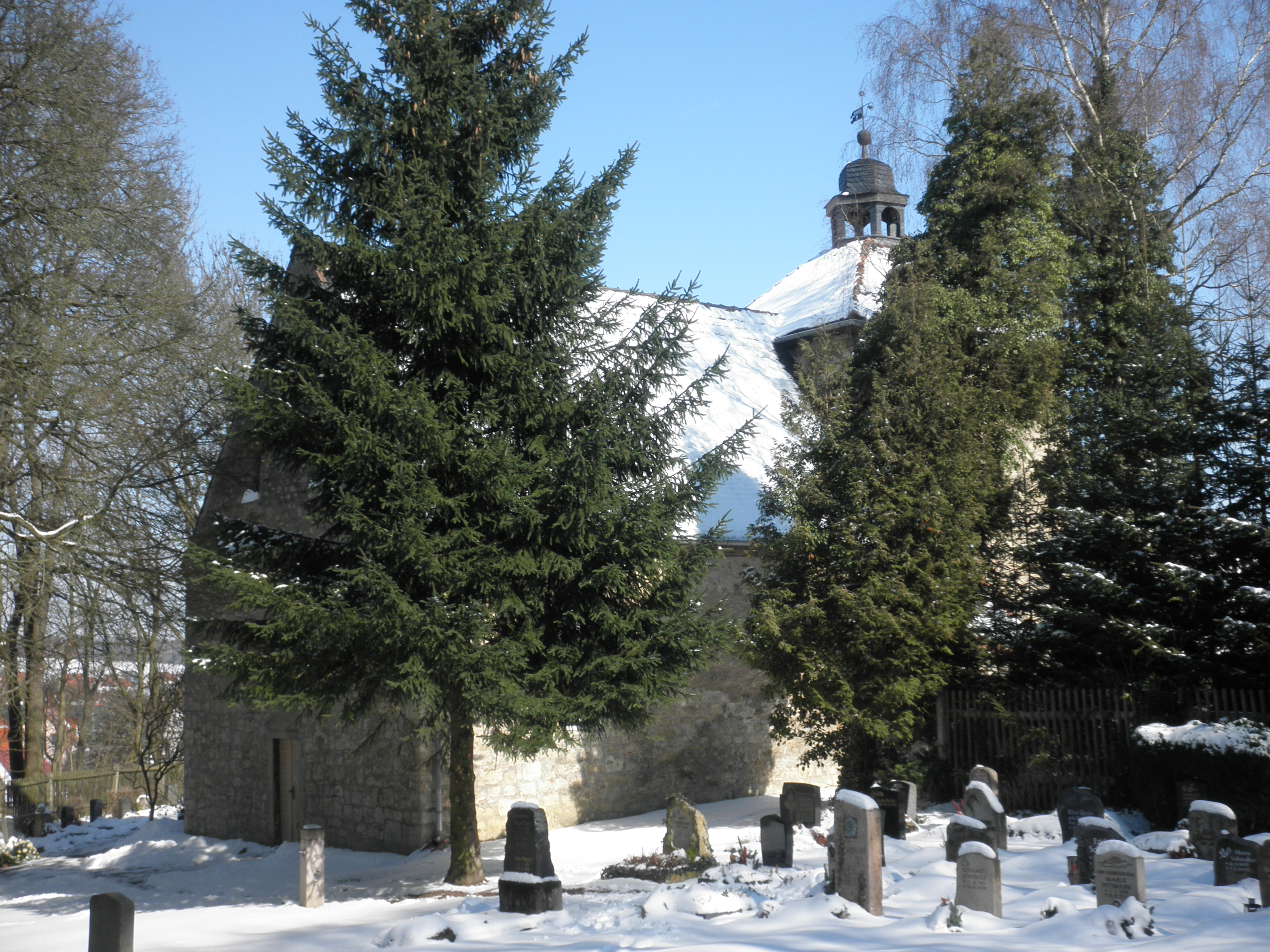 Church in Cospeda (Jena) in Thuringia